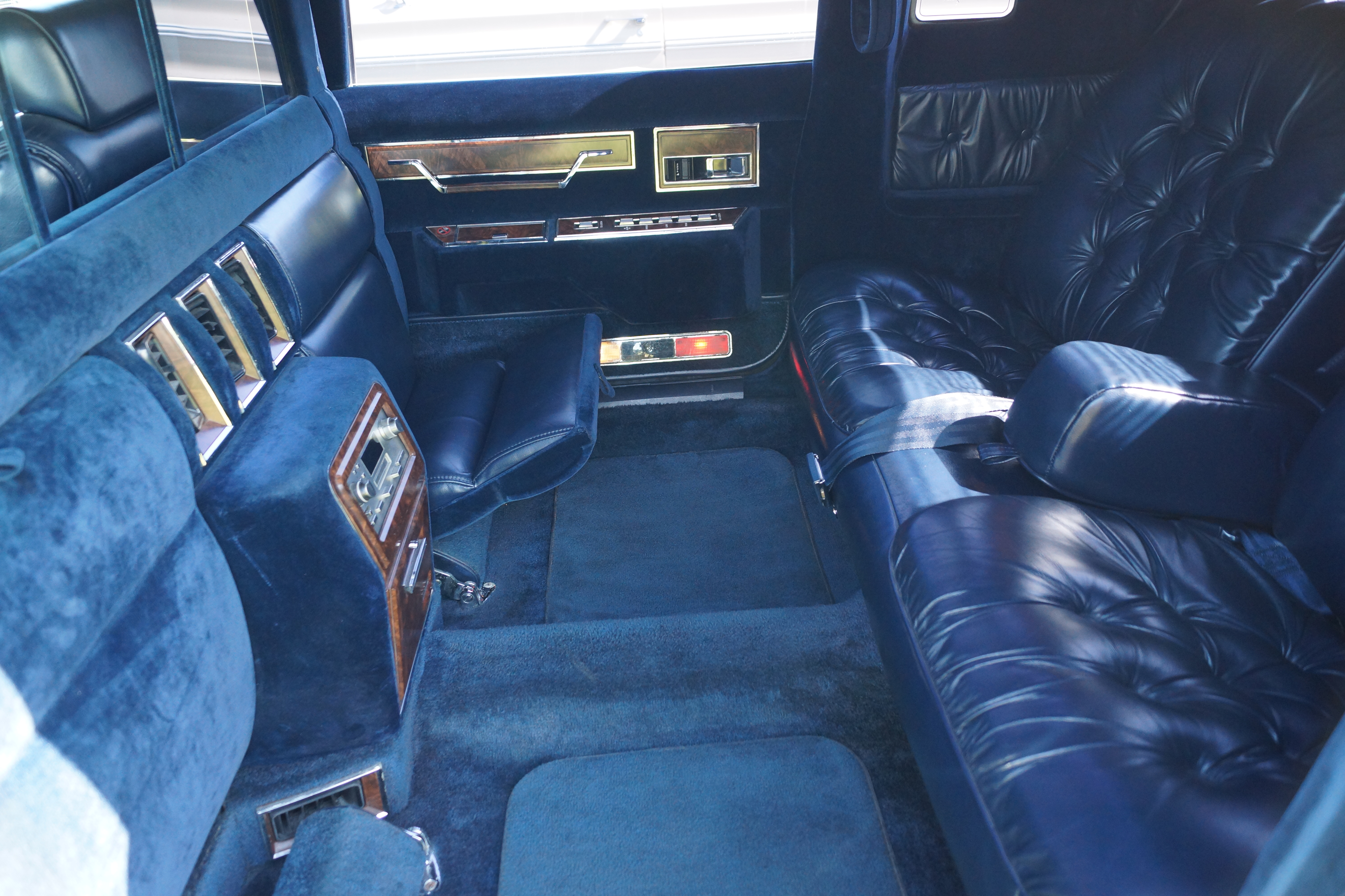 Midwest Mopars in the Park National Car Show & Swap Meet Dakota County Fairgrounds Farmington, Minntesota June 2-4, 2017